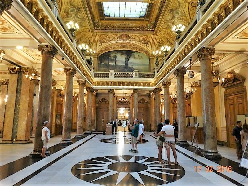 Inner view of casino Monte-Carlo